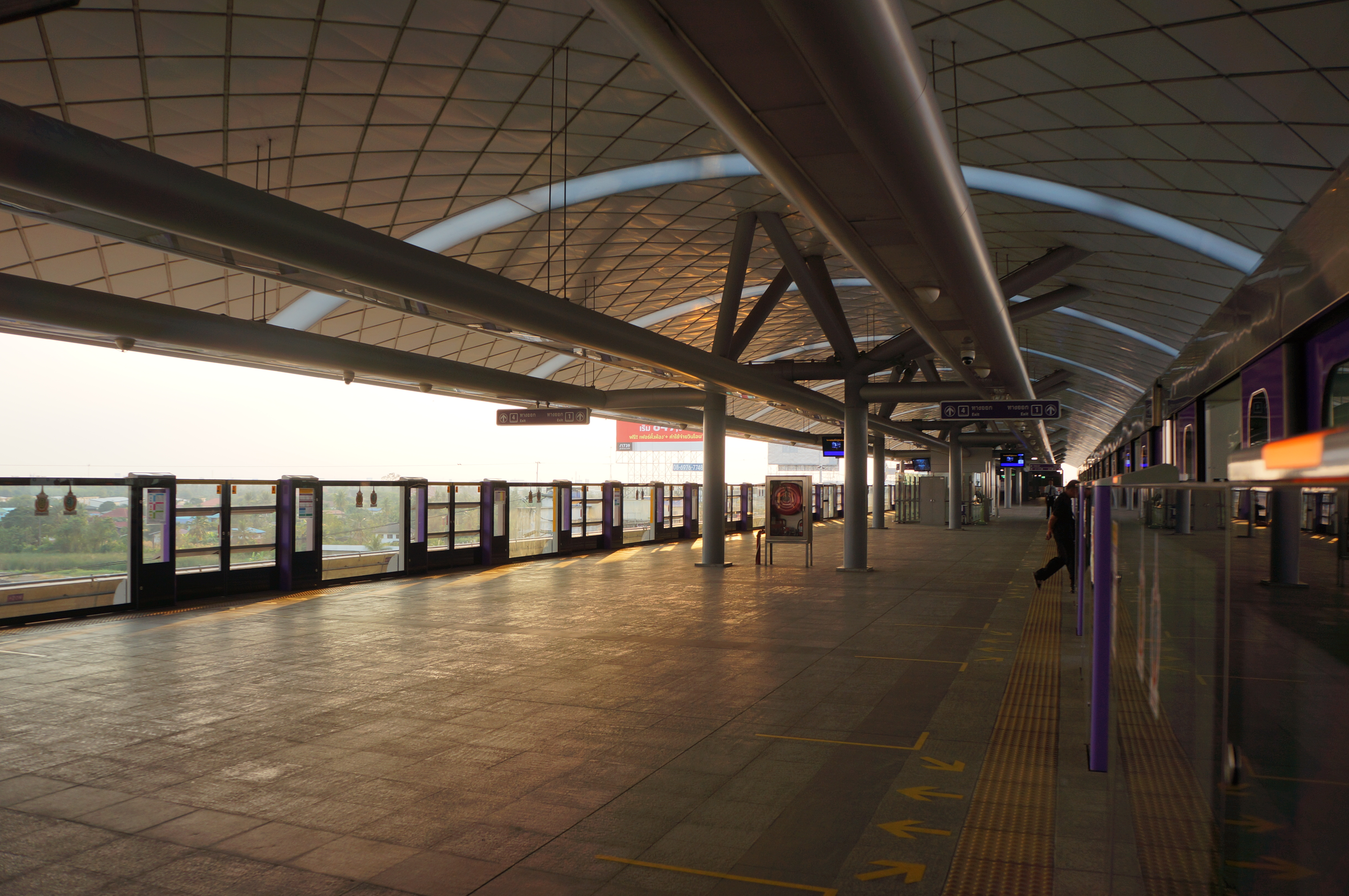 201701 Platform of Bang Phlu Station